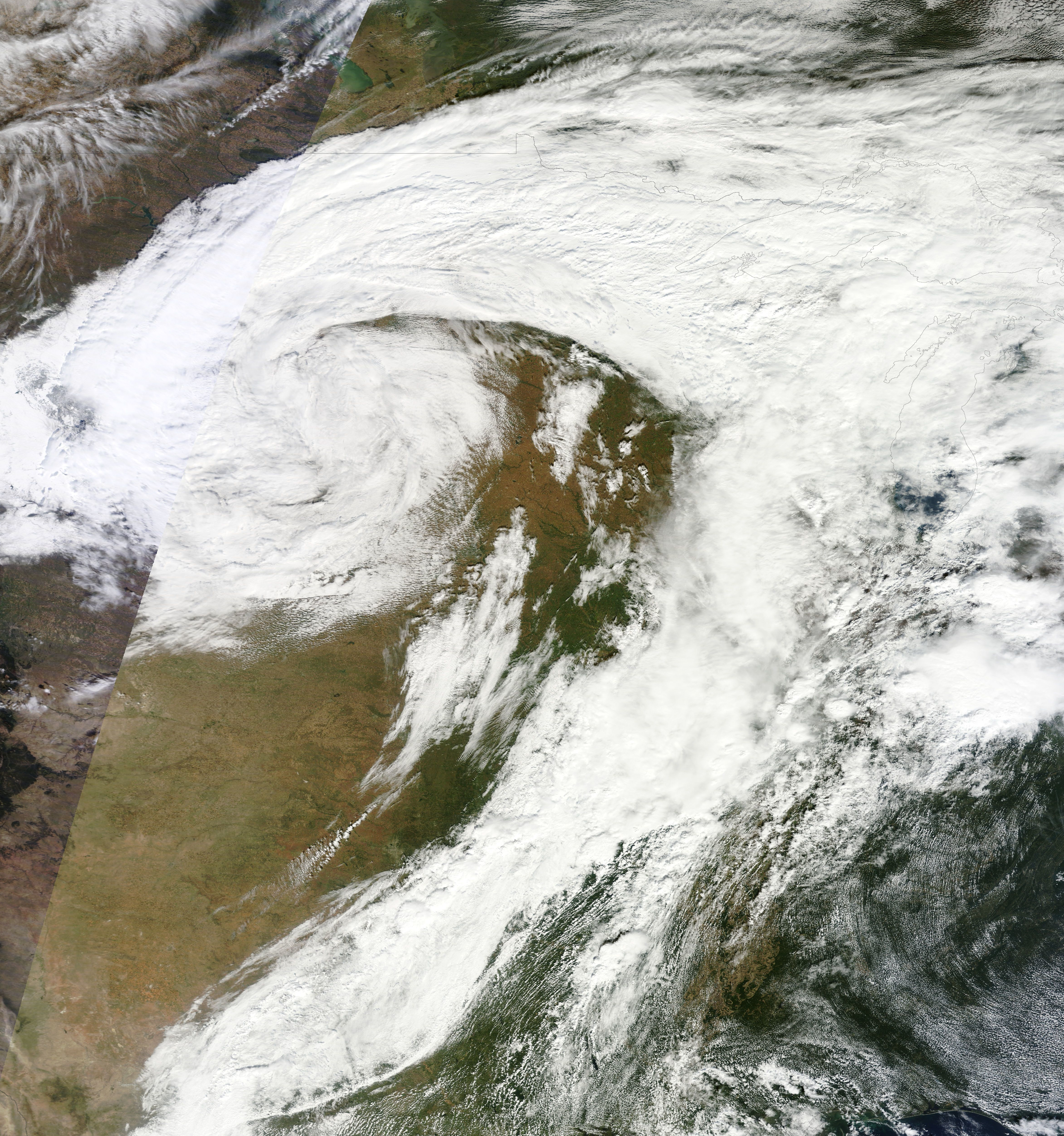 Terra satellite imagery of the October 2013 North American storm complex as viewed on October 5, 2013 at 2015z.